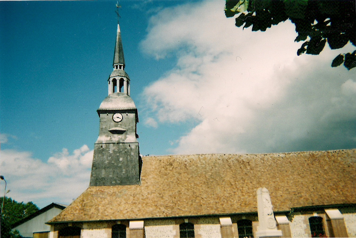 This is the church in the french village of Saint Didier Des Bois